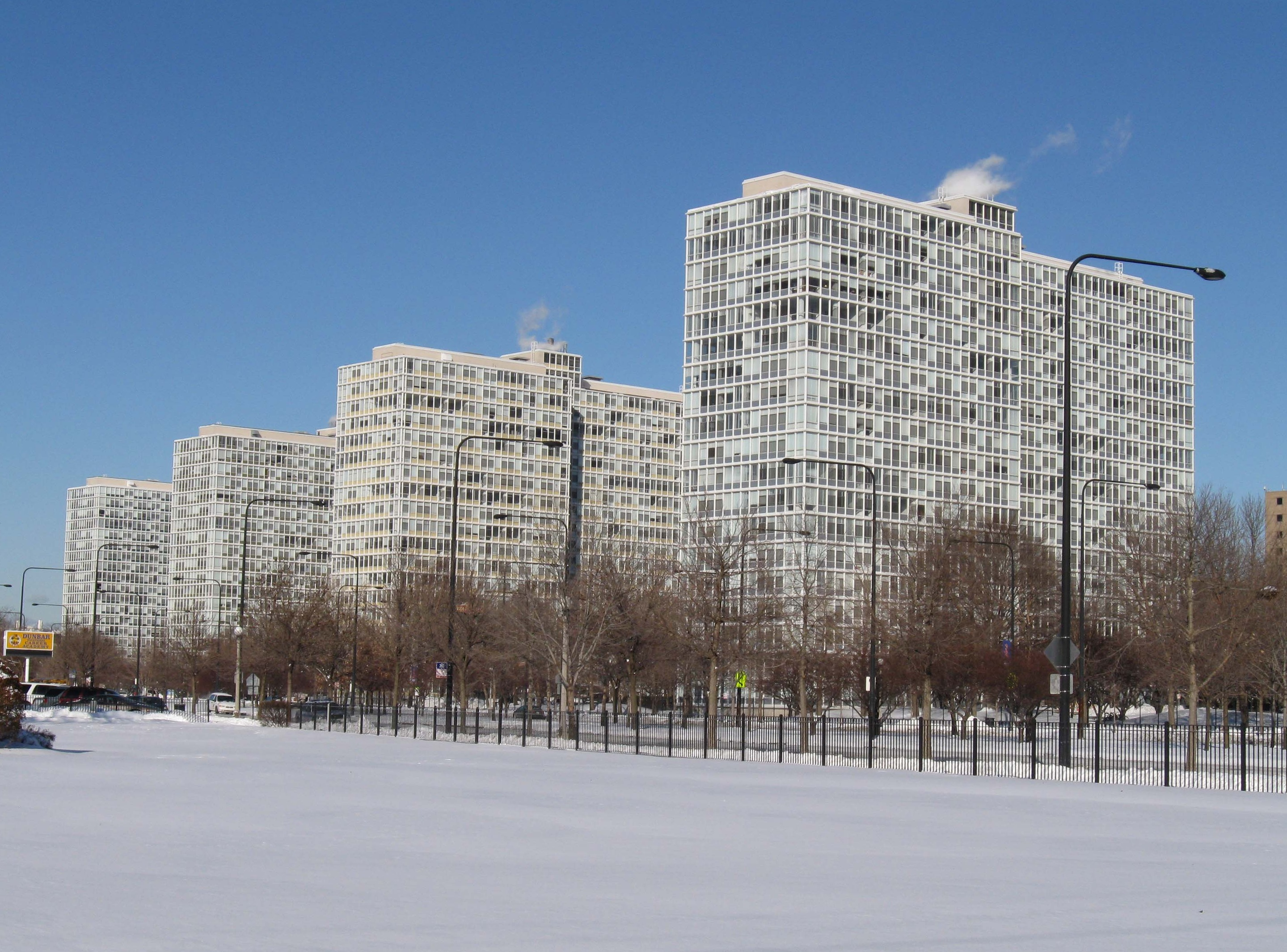 Prairie Shores Apartment at Bronzeville in Chicago, USA